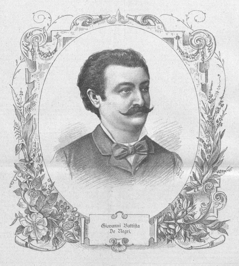 Portrait of Giovanni Battista De Negri (1850-1922), Italian opera singer